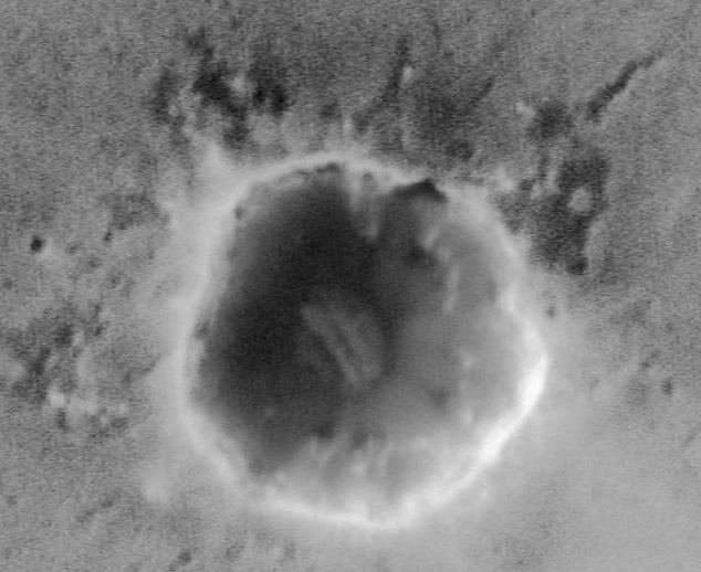 Mars Global Surveyor image of Endurance crater.